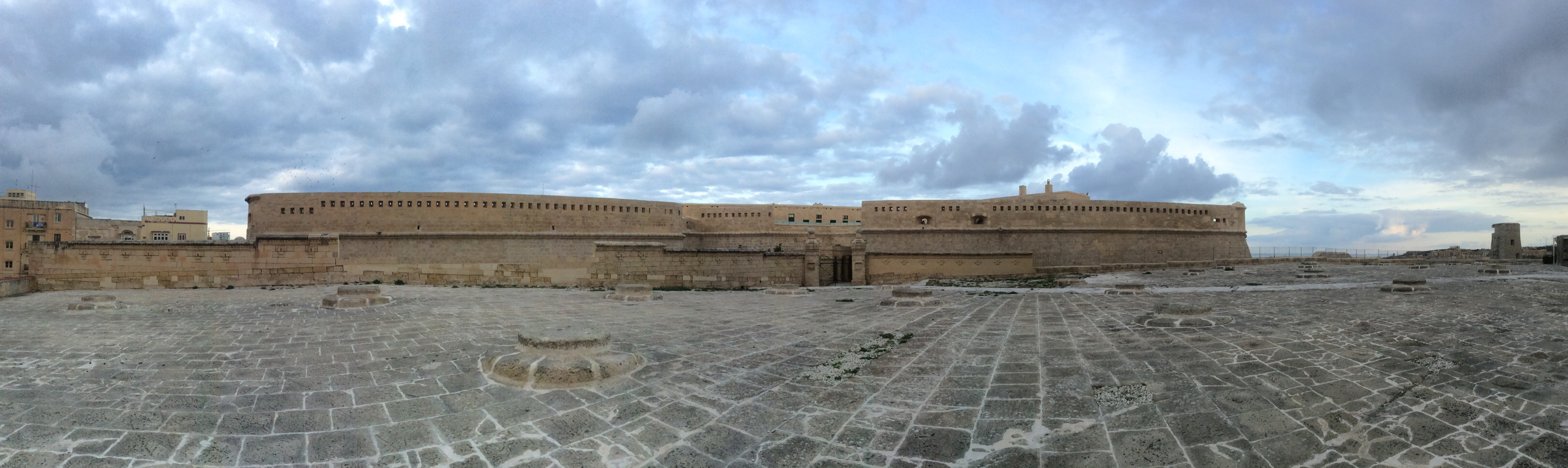 Fort St. Elmo after restoration view